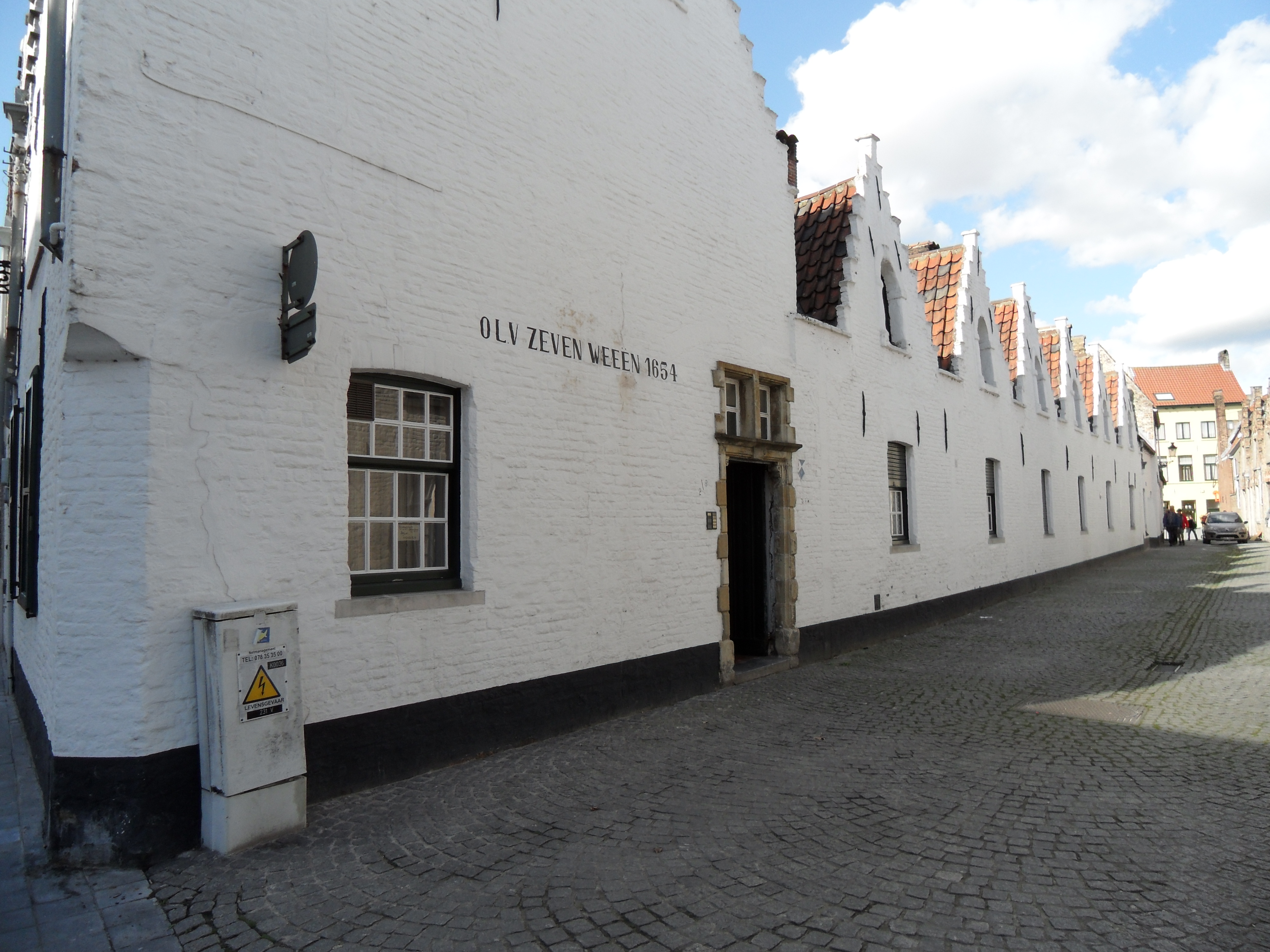 Drie Kroezenstraat